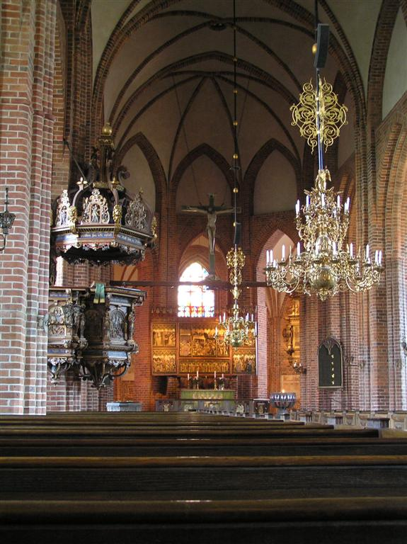 Photo: Bengt Olof ÅRADSSON Interior of Sta Maria in Helsingborg